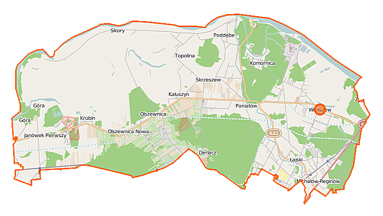 Map of Gmina Wieliszew, Poland This map of Wieliszew (gmina) was created from OpenStreetMap project data, collected by the community. This map may be incomplete, and may contain errors. Don't rely solely on it for navigation. Border coordinates52.494520.7518←↕→21.012752.4049